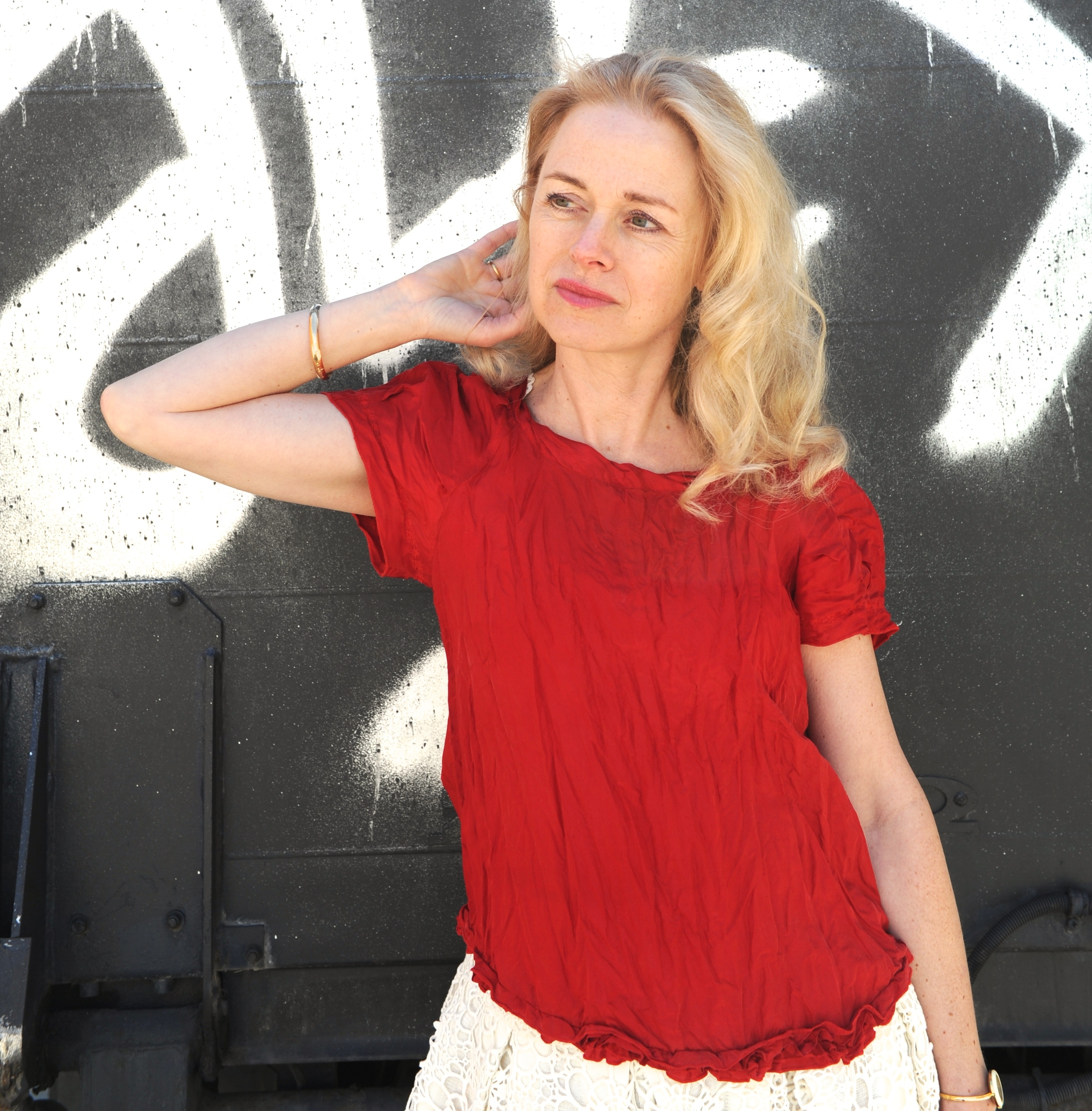 Swedish author Maria Ernesta